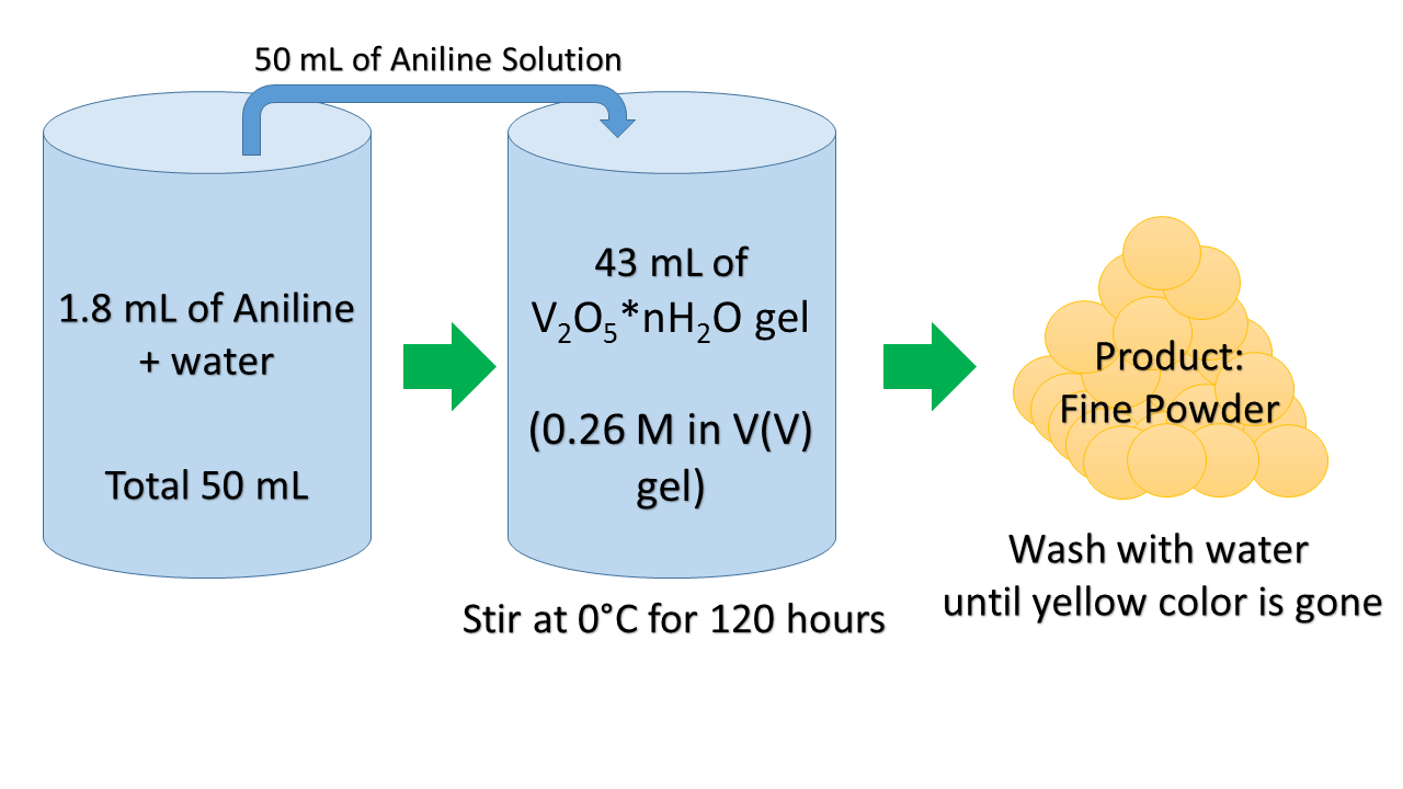 Figure 3 for Chem 171